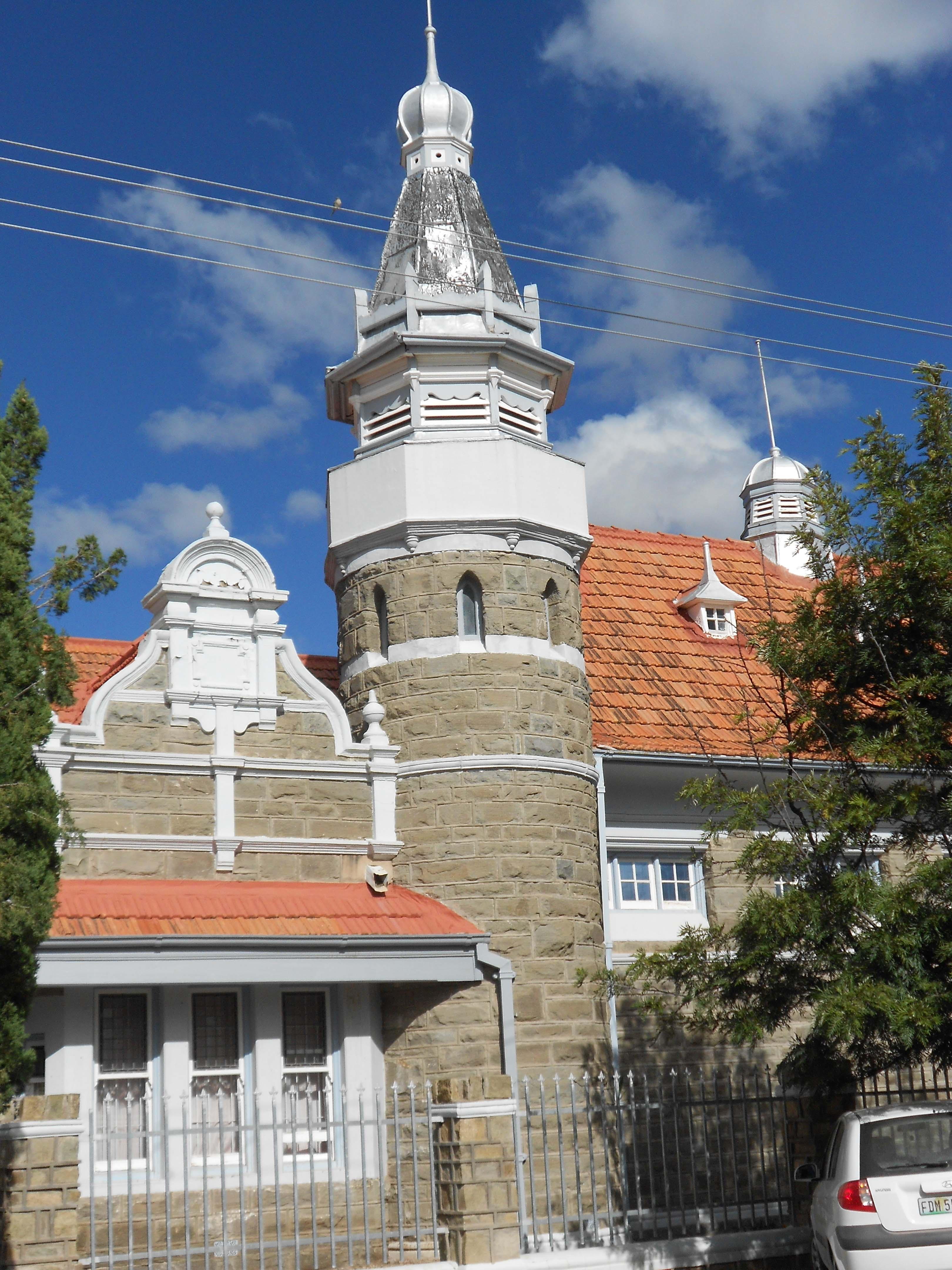 Post Office and Magistrate's Court, Grey Street, Aberdeen This media shows a South African Protected Site with SAHRA file reference 9/2/001/0003.